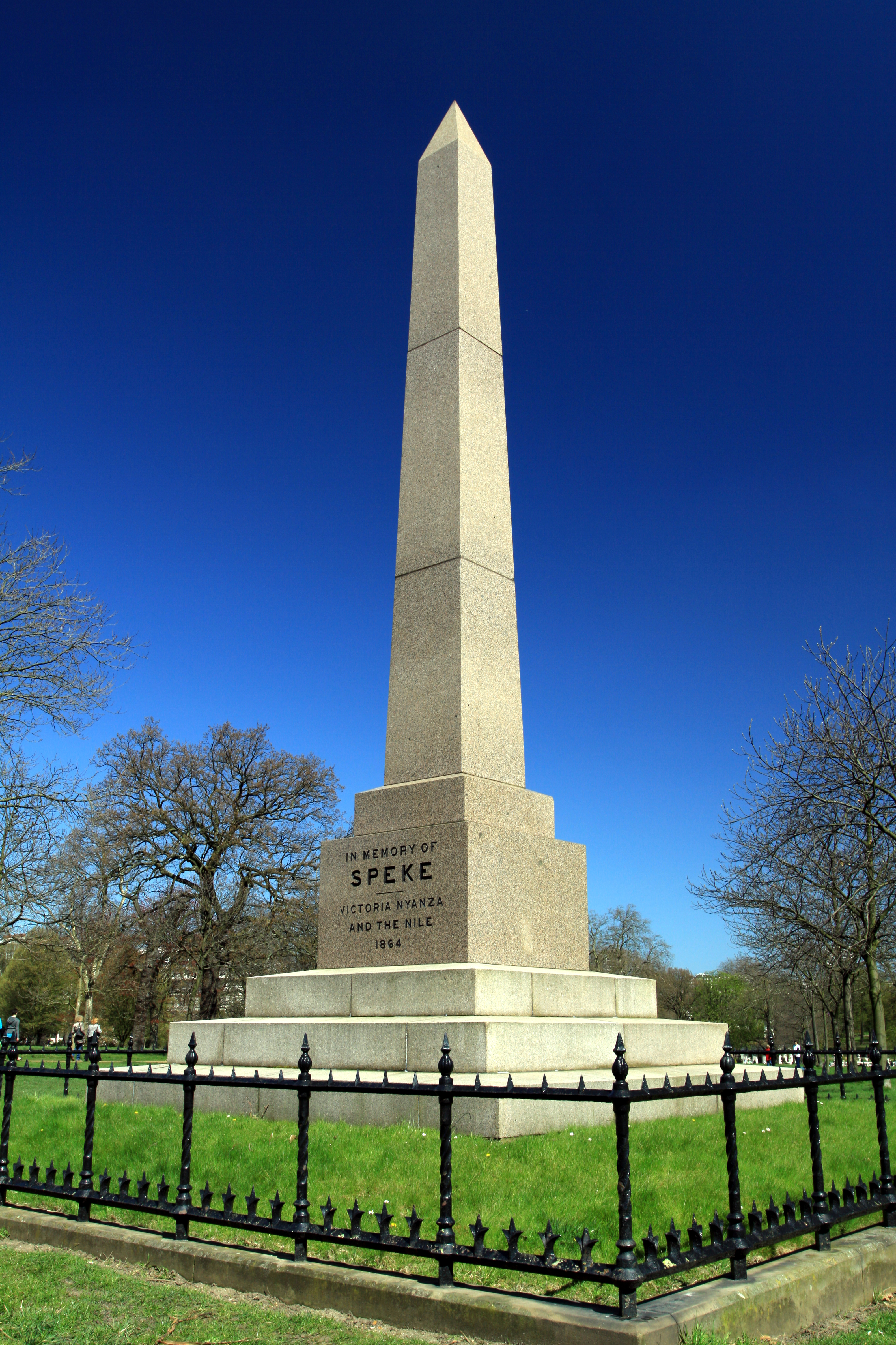 Speke’s Monument in the Kensington Gardens in the City of Westminster, London, Great Britain. The making of this file was supported by Wikimedia UK.